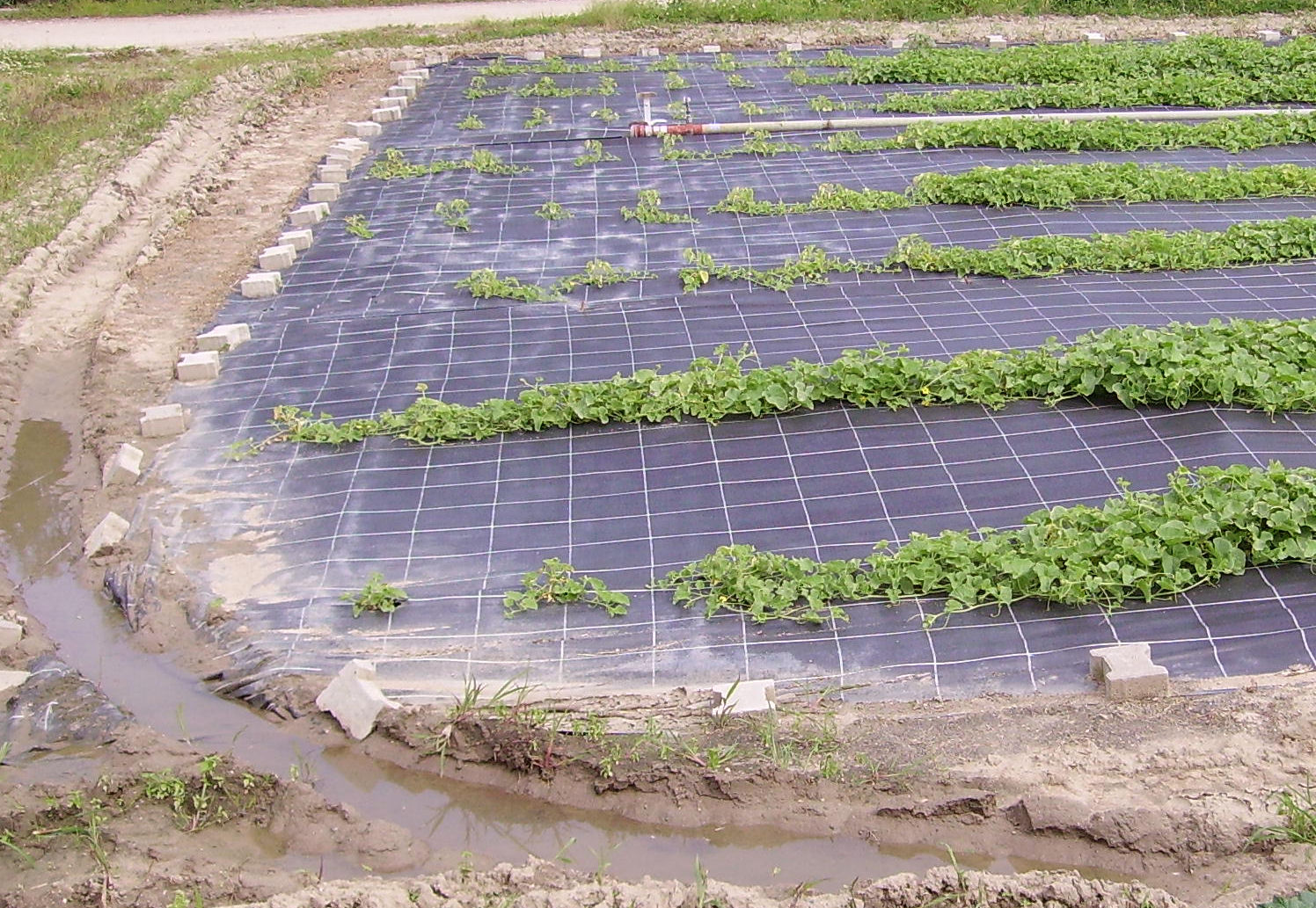 view of Limburgerhof, Germany: Cucumis sativus